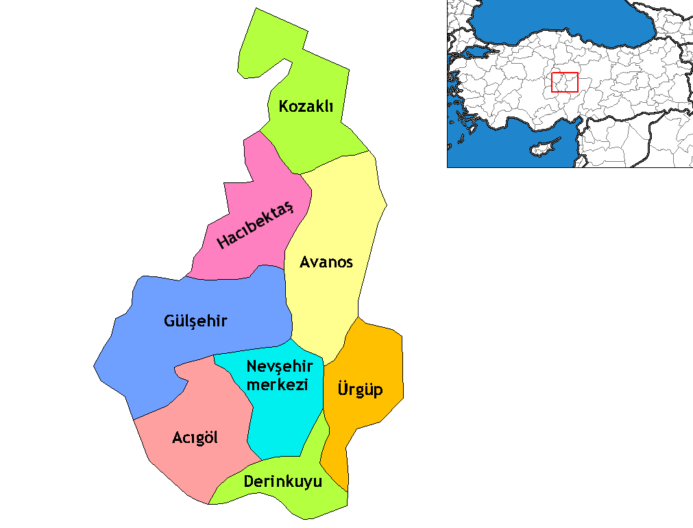 Map of the districts of Nevşehir province in Turkey. Created by Rarelibra 16:38, 4 December 2006 (UTC) for public domain use, using MapInfo Professional v8.5 and various mapping resources. Edited by One Homo Sapiens Corrected text where İ,Ş,ı,ğ,or ş occurs in name. Source: [statoids-com]. Increased font size and enhanced color differences among adjacent districts.